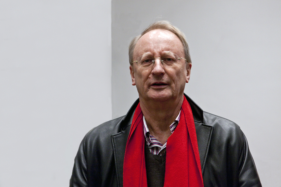 German artist Klaus Staeck